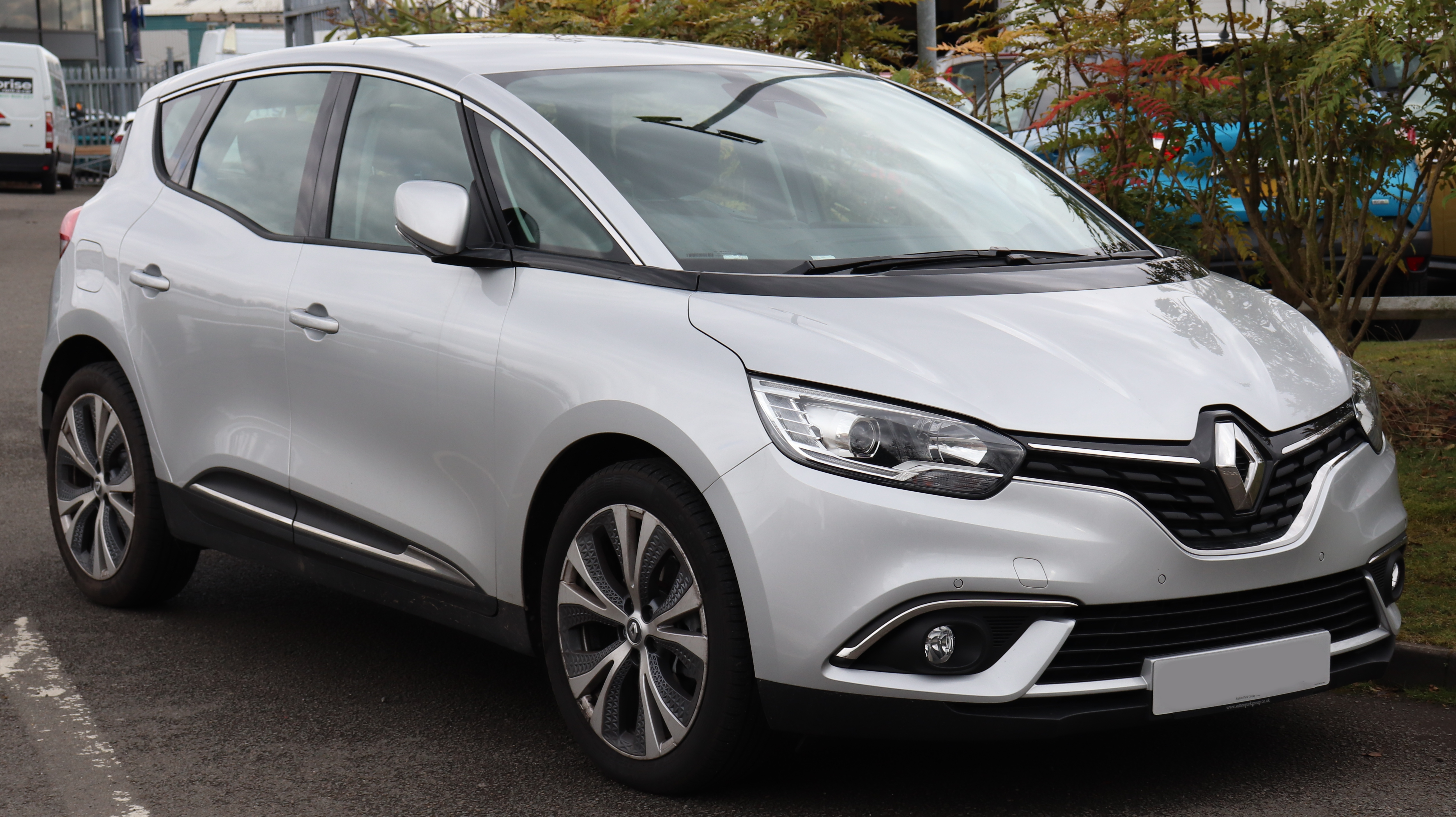 2017 Renault Scenic Dynamique NAV DCi 1.5 Front Taken in Leamington Spa